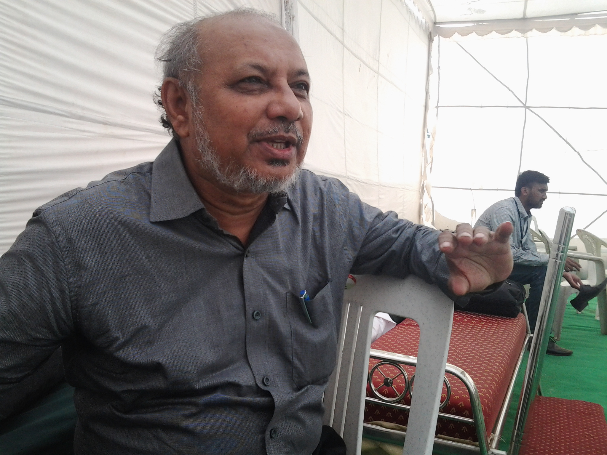 Mr Raqeeb in a conversation with a journalist.